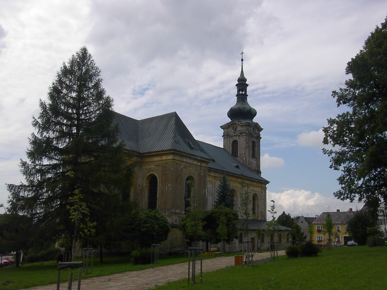 Gothic church of St Giles in Teplá, Cheb District, Czech Republic.